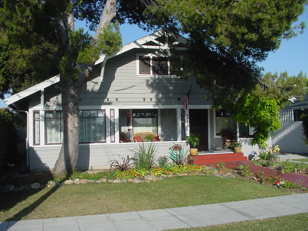 Photo of a typical front-gabled California bungalow.